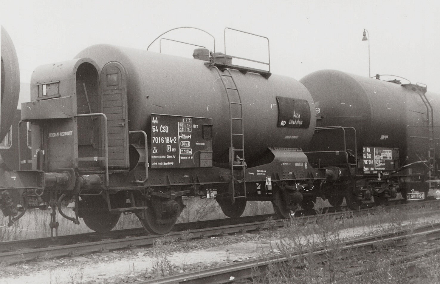 Privat tank wagon (P in square)for mineral oils registered as ČSD Class R (Zk) 44 54 701 6 184-2 at test circle in Cerhenice